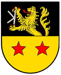 Coat of arms of Gundersweiler